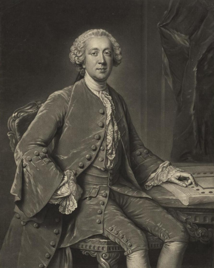 A portrait from the Welsh Portrait Collection at the National Library of Wales. Depicted person: George Nugent-Grenville, 2nd Baron Nugent – British politician